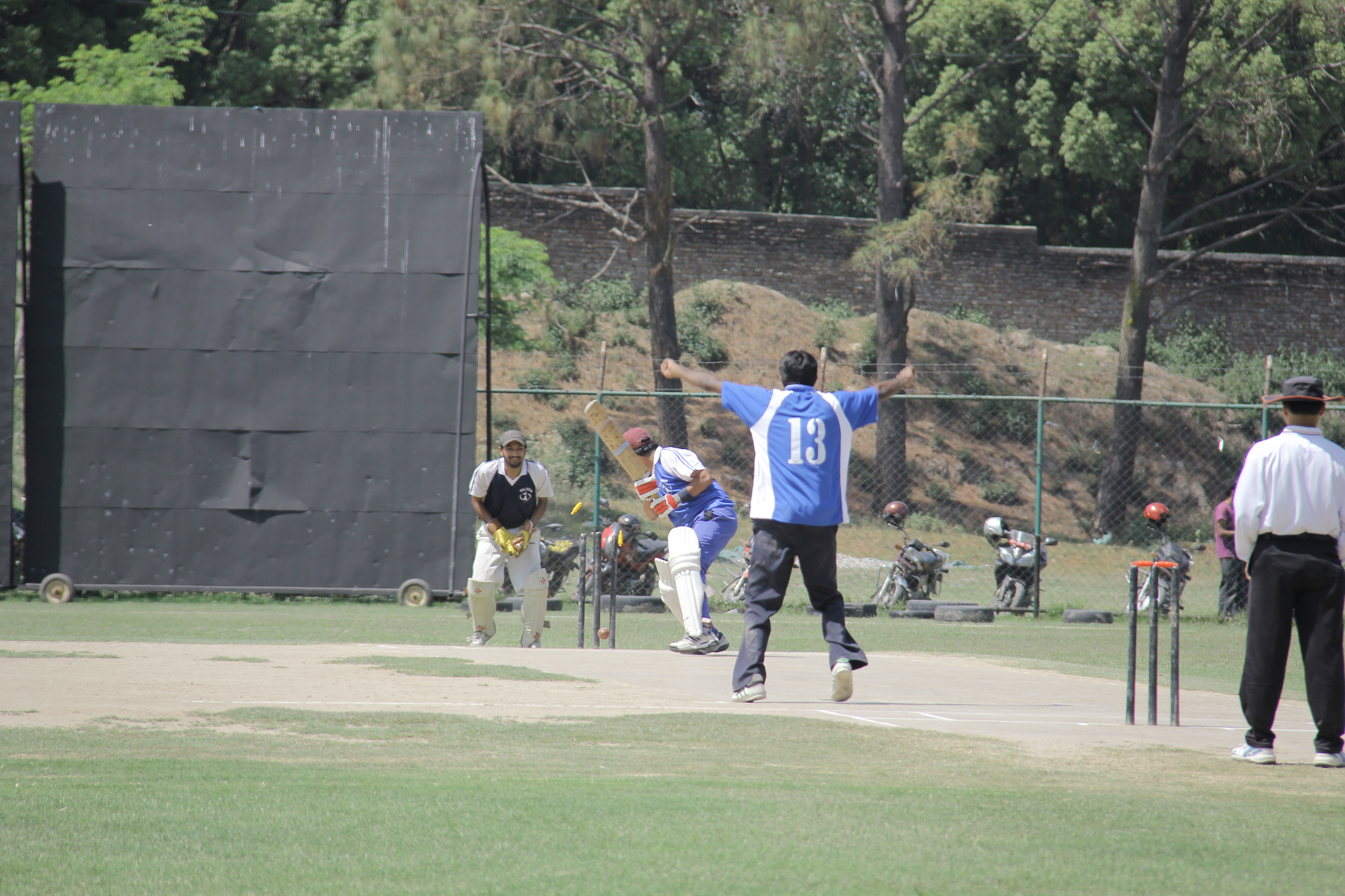 A match in Kirtipur Cricket Ground, Kathmandu